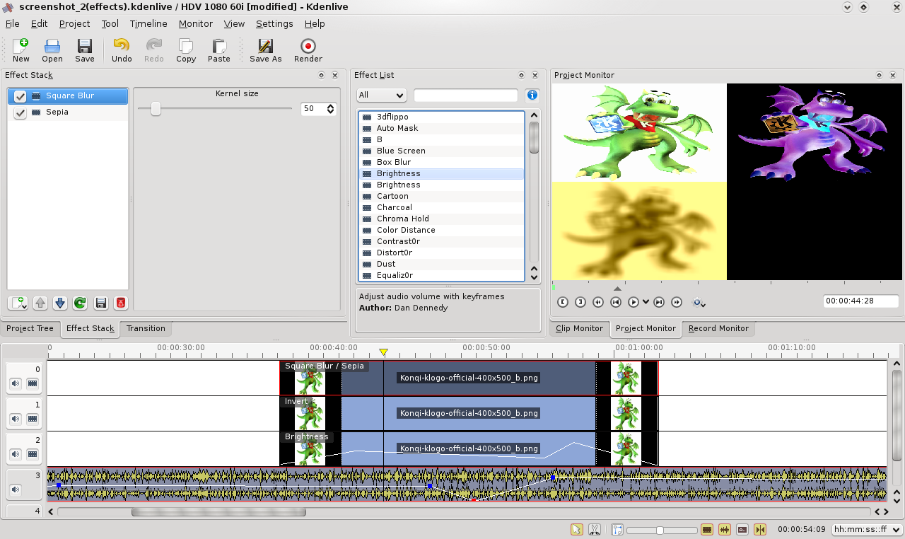 A range of video effects in Kdenlive